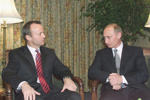 OTTAWA. President Putin with Stockwell Day, leader of the official opposition in the House of Commons of the Canadian Parliament.